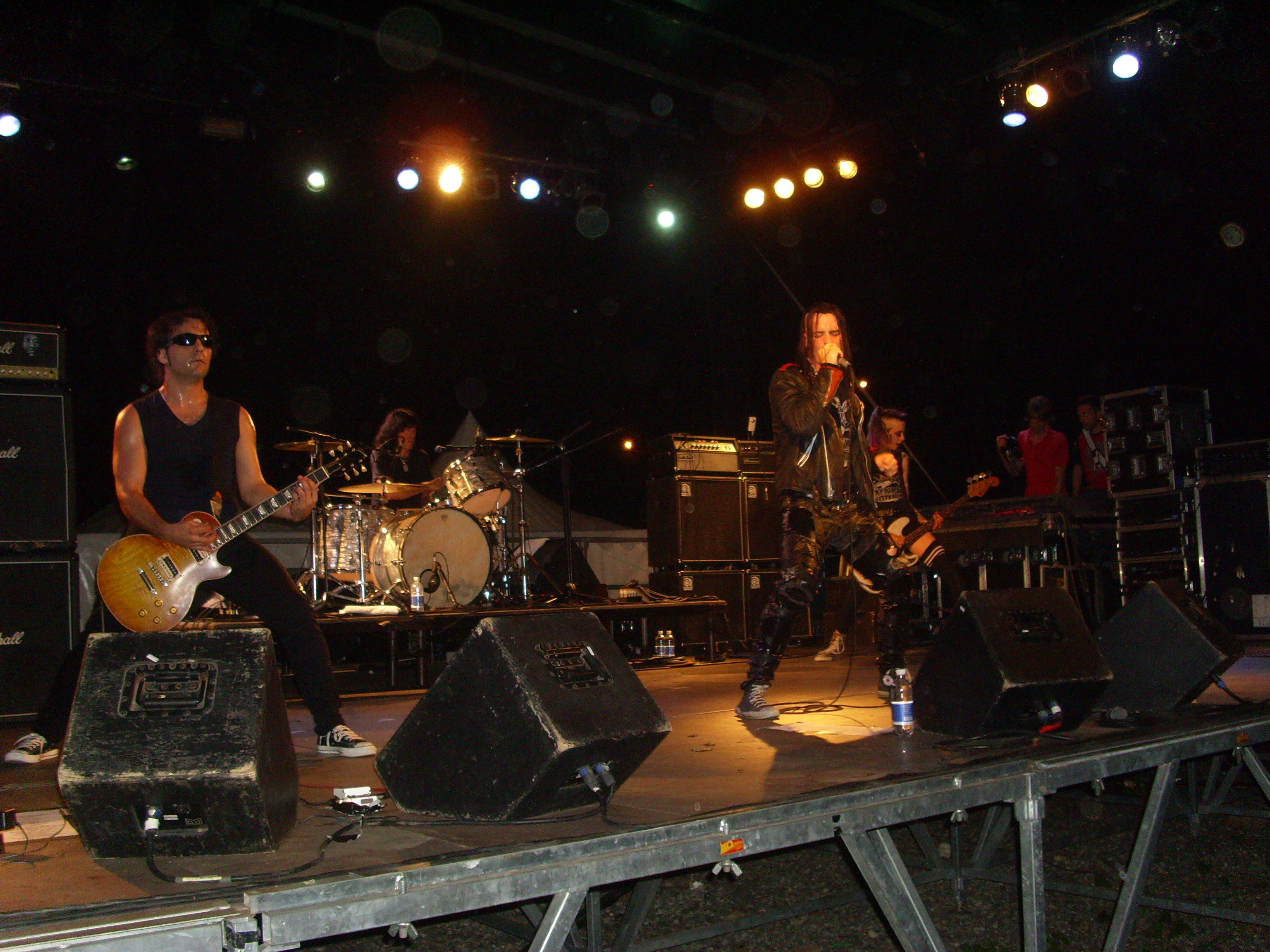 Marky Ramones Blitzkrieg Live @ Nichelino Sound Fest Italy 02/07/2010.